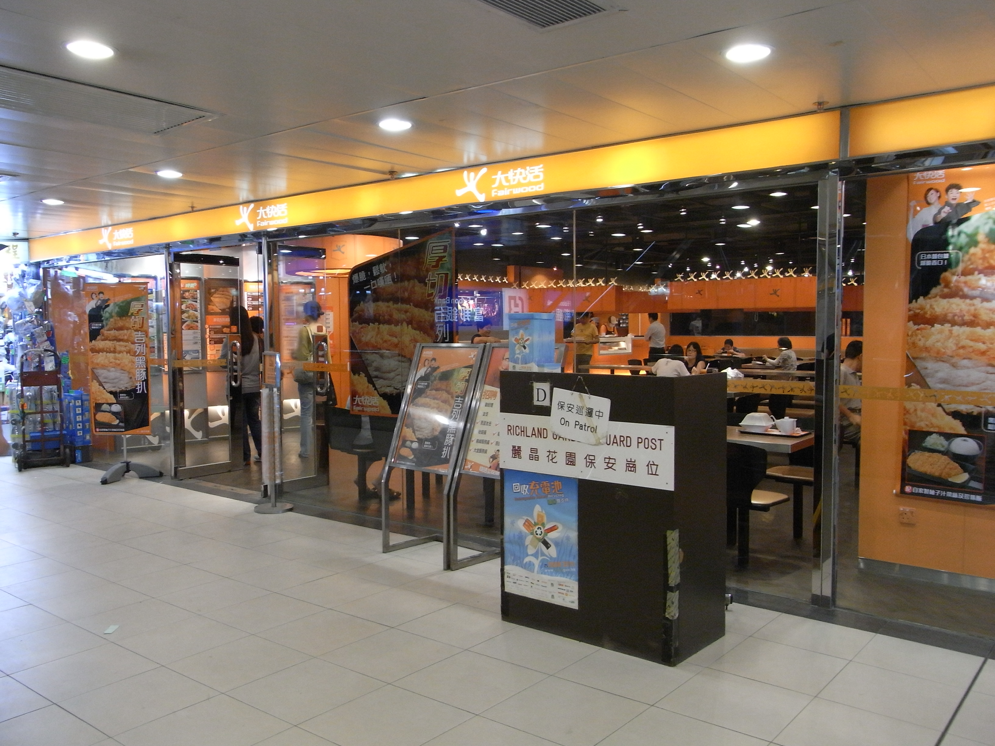 九龍灣 麗晶花園 麗晶商場 內景 大快活